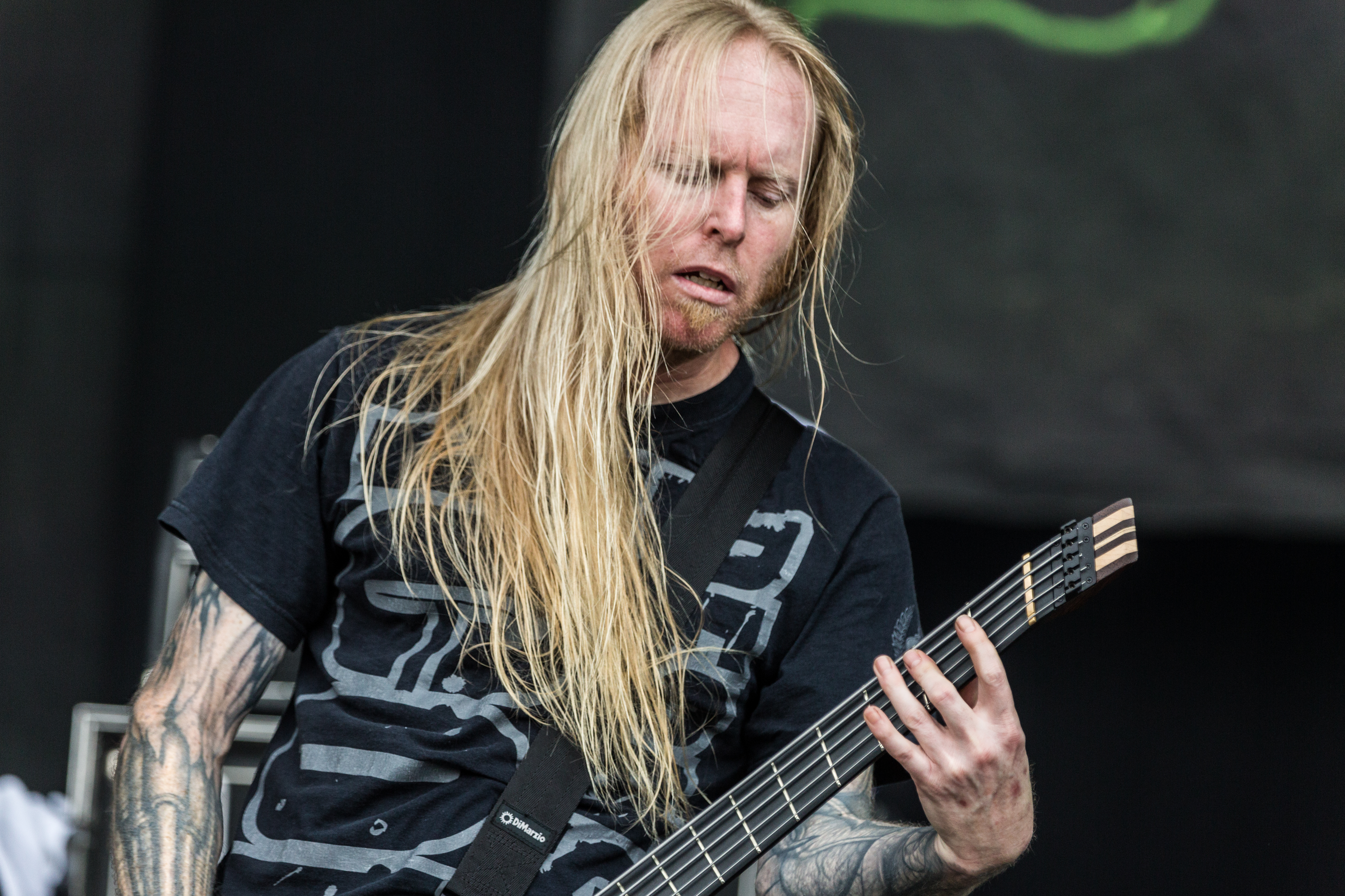 The American death metal band Suffocation at the Summer Breeze Open Air 2017 in Dinkelsbühl/Germany.